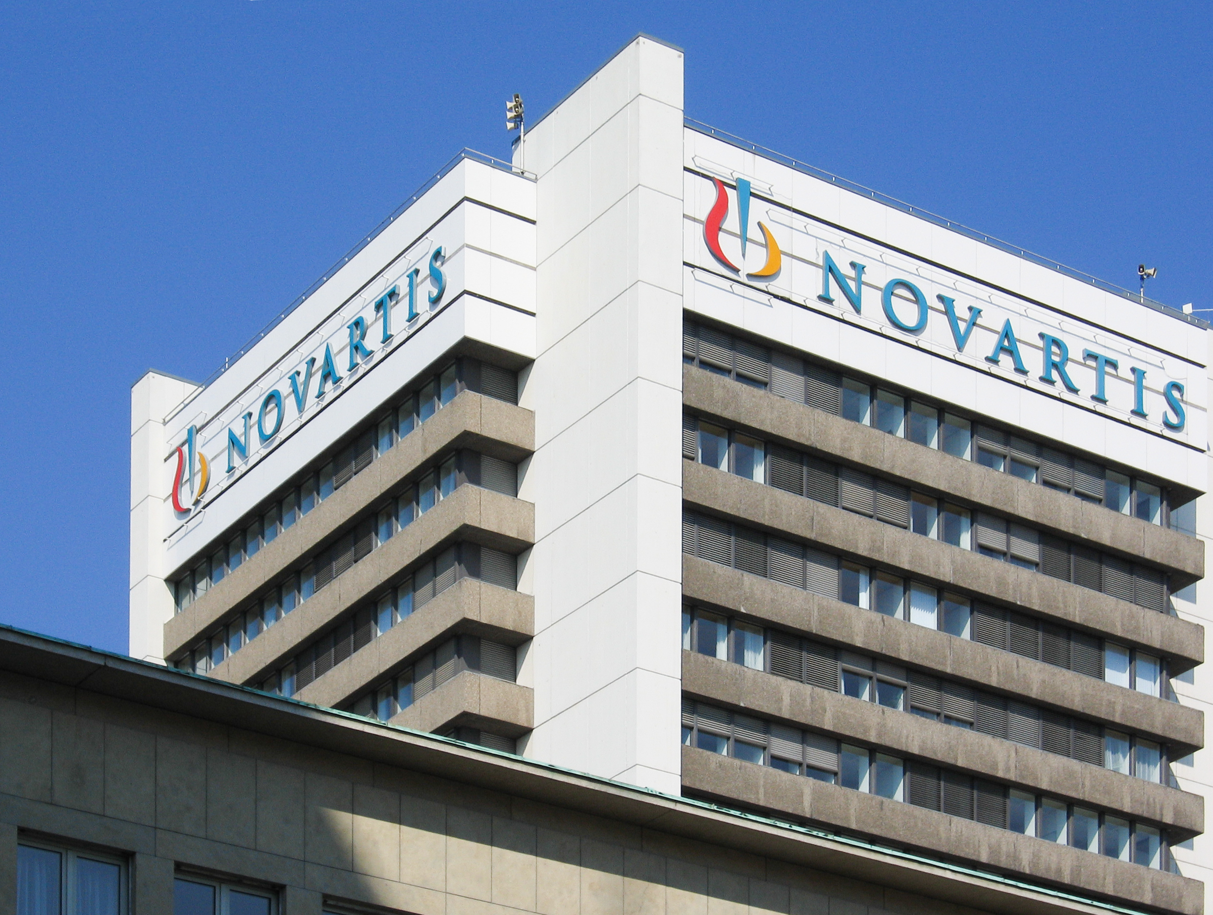 Novartis HQ